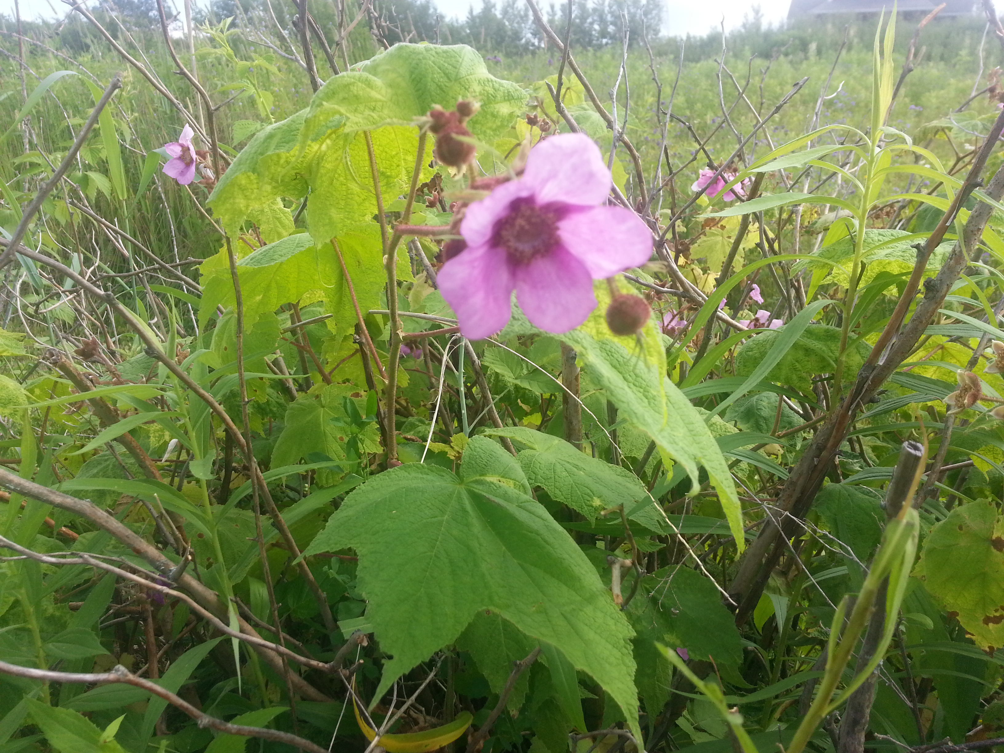 Purple flowering raspberry at Oak Hills Farm